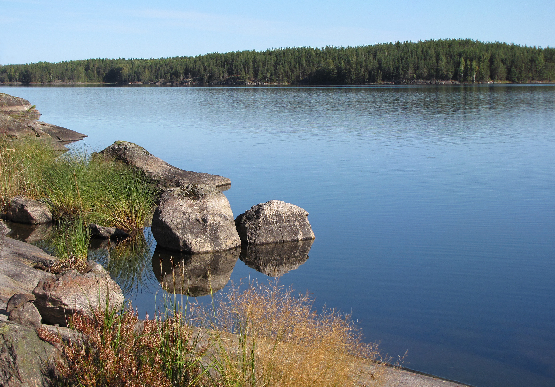 Typical rocky shores of Lake Saimaa, Finland.